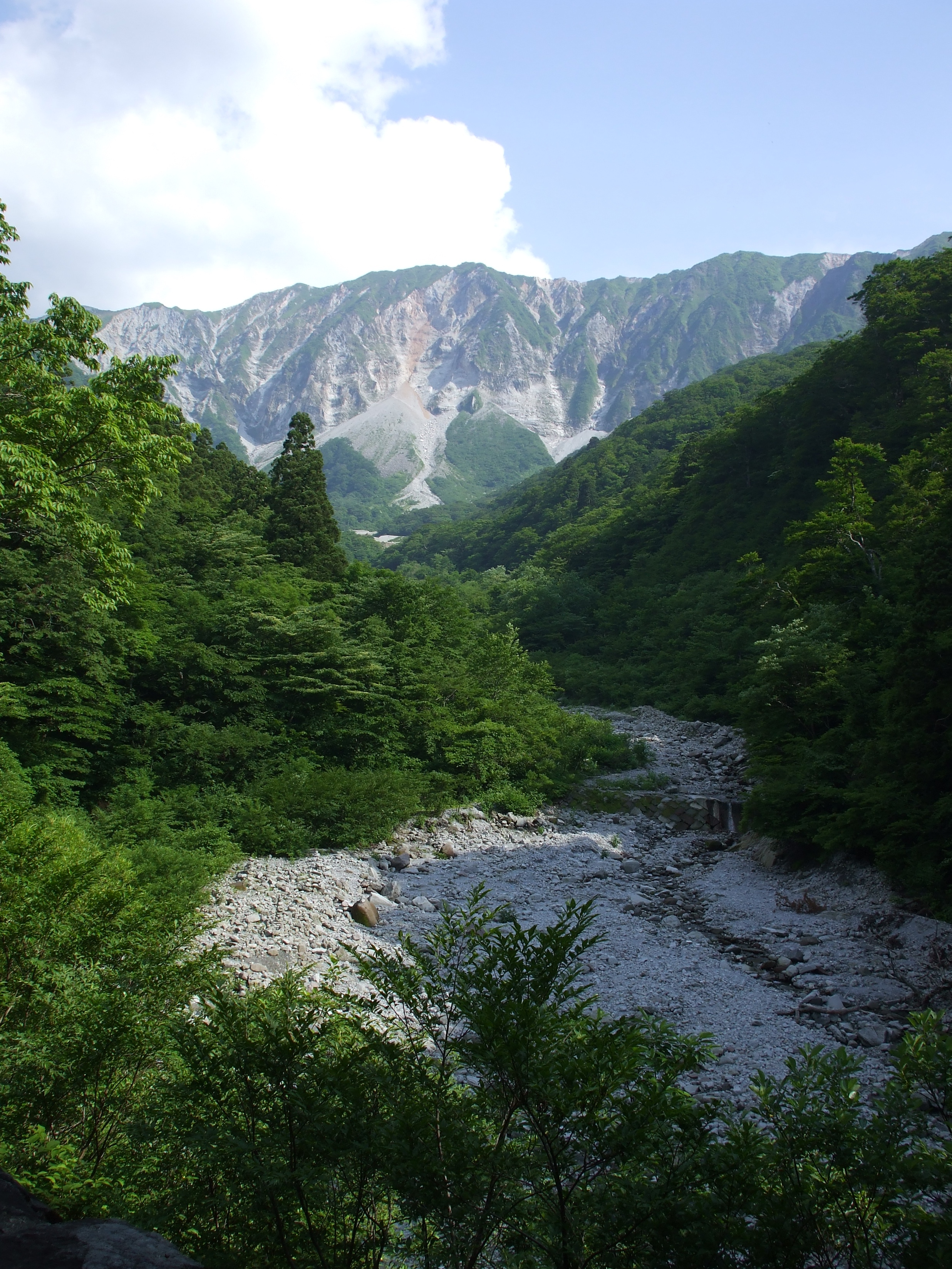 Saino-Kawara, Ogami Jinja, Daisen, Tottori, Japan. By Mass Ave 975